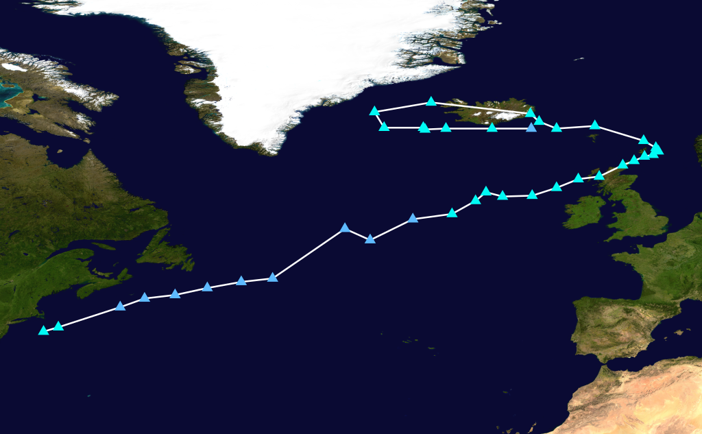 Track map of Storm Jorge of the 2019-20 European windstorm season. The points show the location of the storm at 6-hour intervals. The colour represents the storm's maximum sustained wind speeds as classified in the Saffir–Simpson scale (see below), and the shape of the data points represent the nature of the storm, according to the legend below. Saffir–Simpson scale Tropical depression≤38 mph≤62 km/h Category 3111–129 mph178–208 km/h Tropical storm39–73 mph63–118 km/h Category 4130–156 mph209–251 km/h Category 174–95 mph119–153 km/h Category 5≥157 mph≥252 km/h Category 296–110 mph154–177 km/h Unknown Storm type Tropical cyclone Subtropical cyclone Extratropical cyclone / Remnant low / Tropical disturbance / Monsoon depression